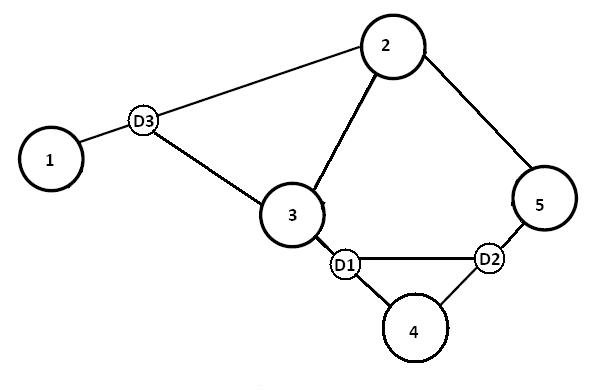 example of transformed graph